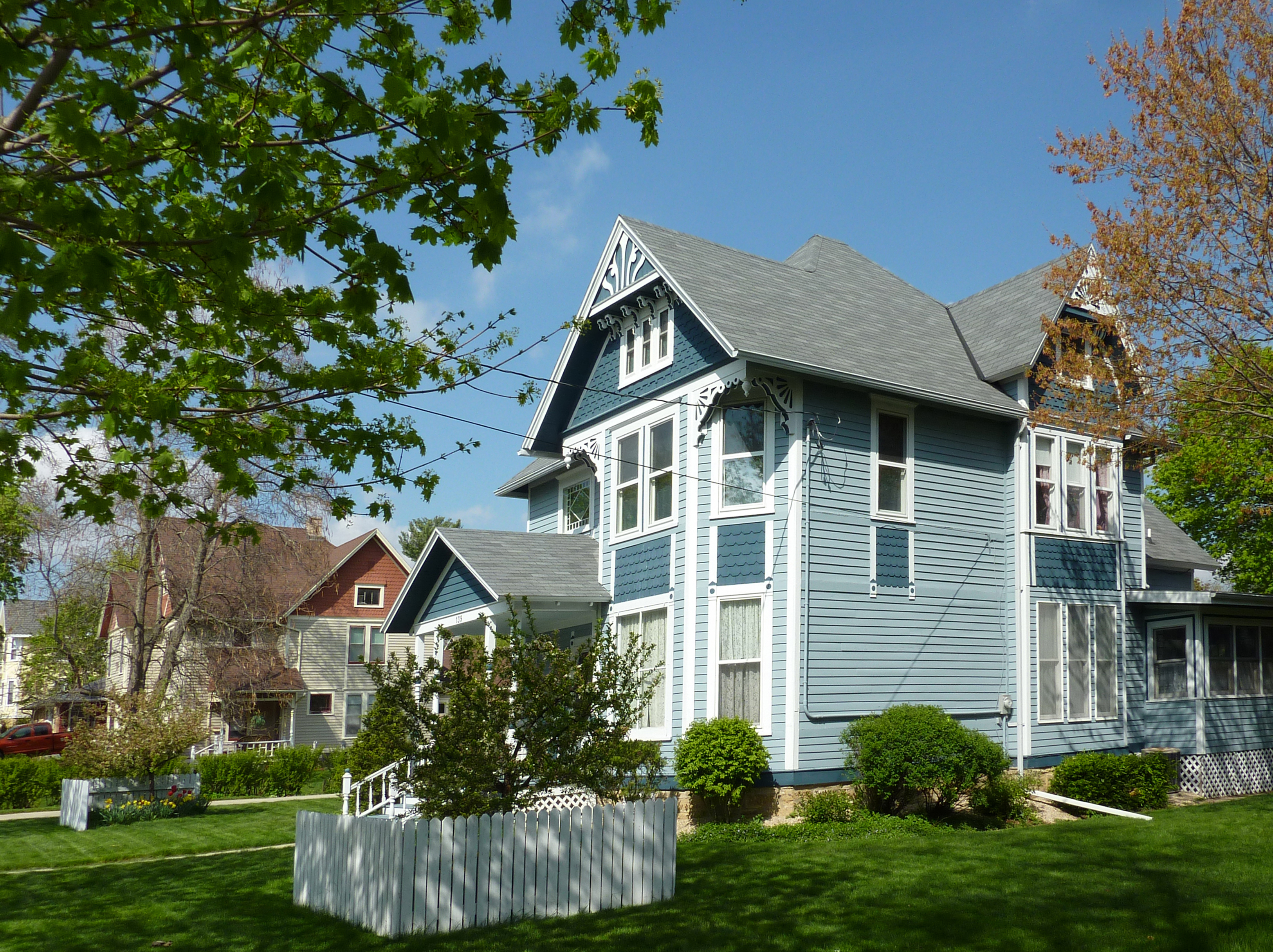 Houses on N. Monroe Street in Stoughton, Wisconsin, part of the Northwest Side Historic District. It was added to the National Register of Historic Places in 1998.